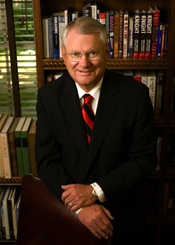 Dr. David J. Schmidley, USA